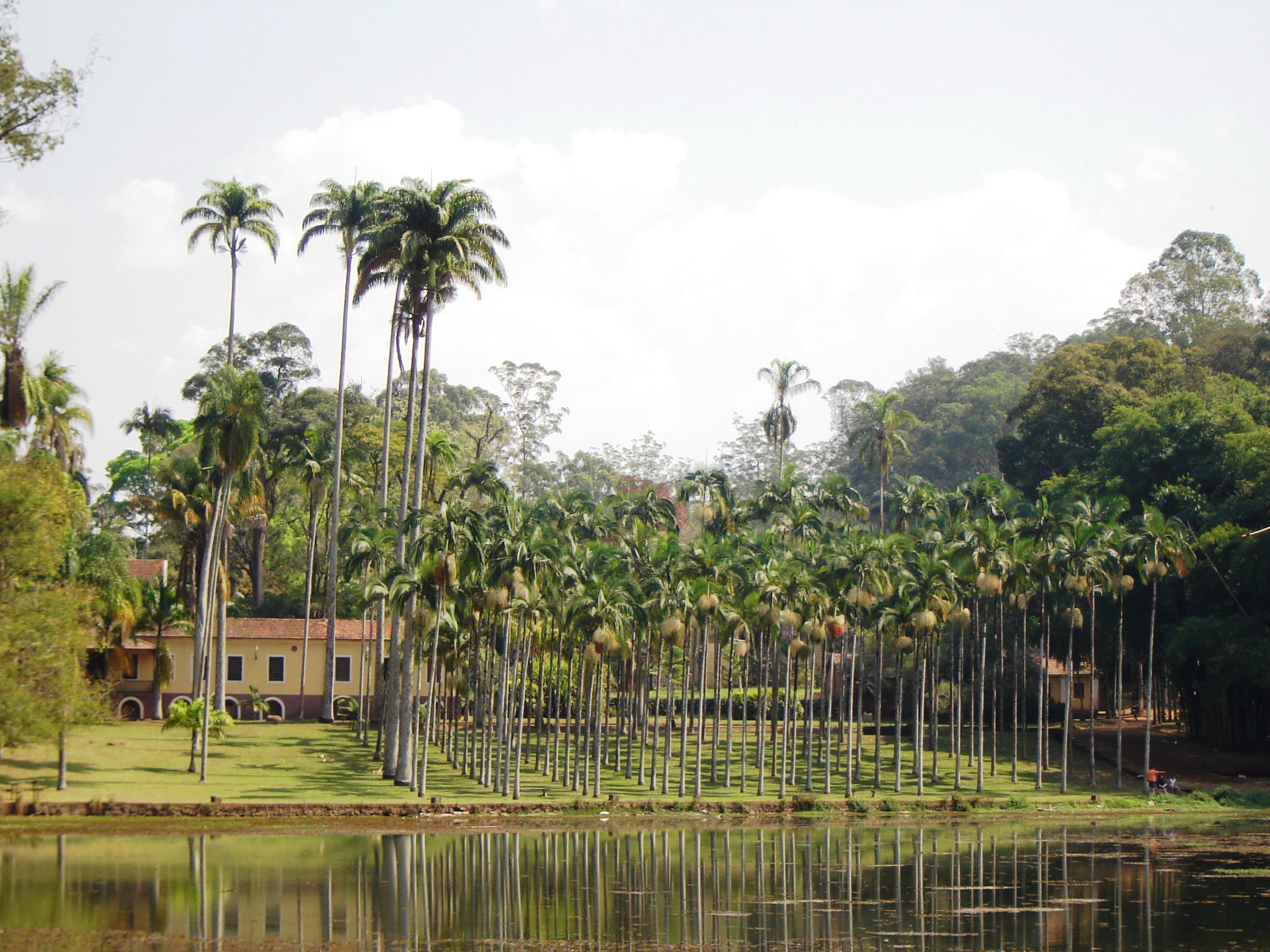 Picture of the forest park Edmundo Navarro de Andrade, in Rio Claro, Brazil. The image shows the mansion where Navarro de Andrade lived.